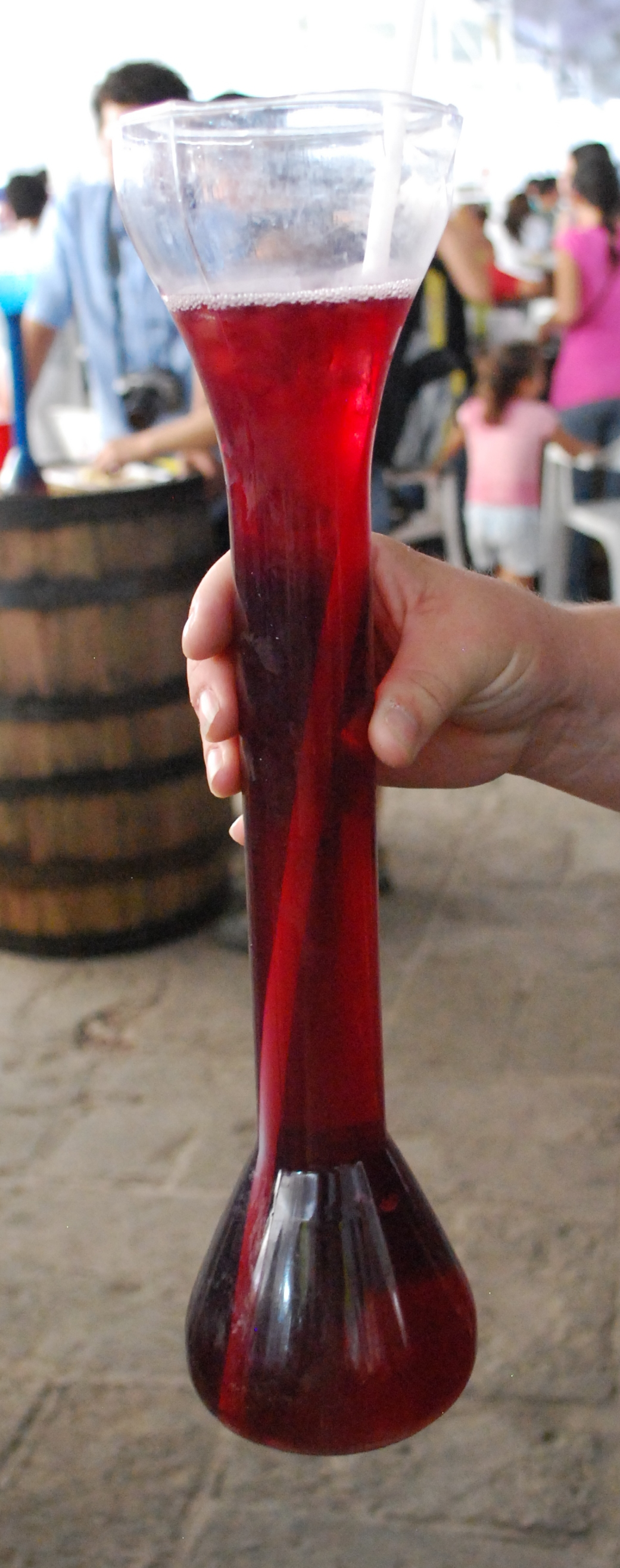 Wine cooler served in a "yarda" glass at the Feria del Queso y el Vino en Tequisquiapan, Queretaro, Mexico